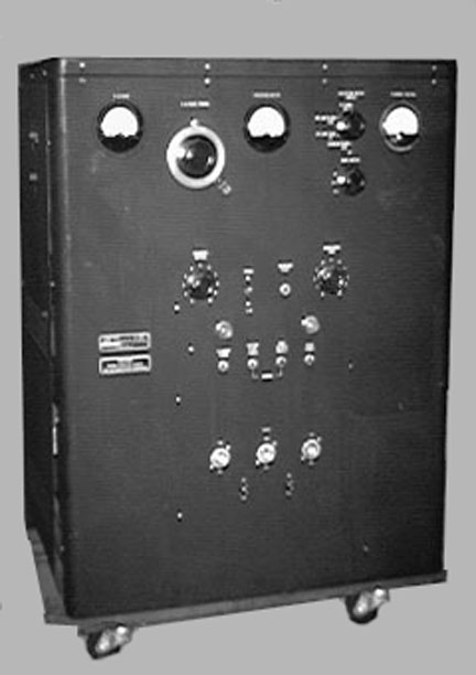 BC-610 Transmitter, 1944 Military Manual picture (TM-11-826, Radio Transmitters BC-610-E,-F,-G,-H,-I, US Government Printing Office).